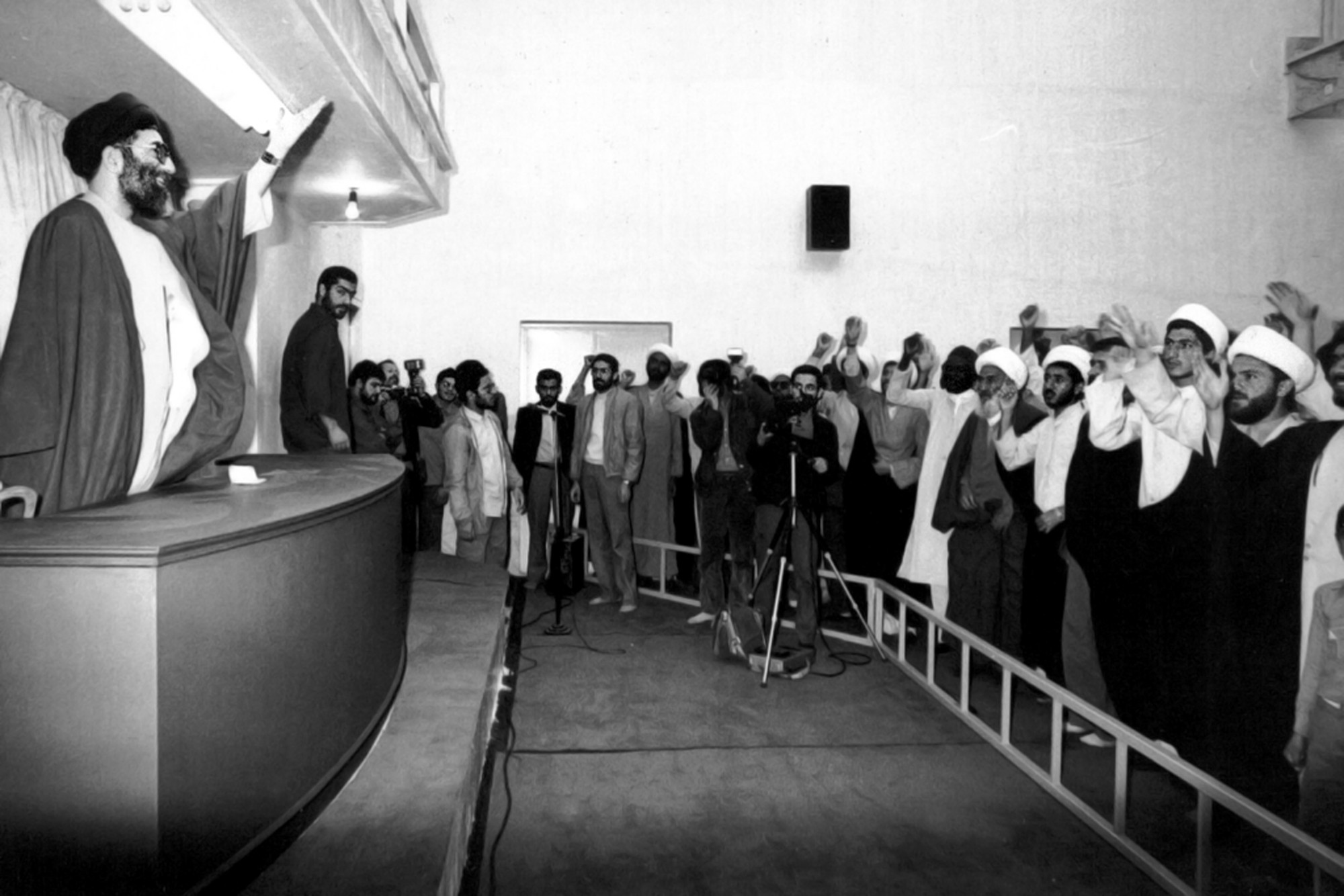 President Ali Khamenei meet Non-Iranian Hawza students - Office of the Islamic Republican Party - Qom